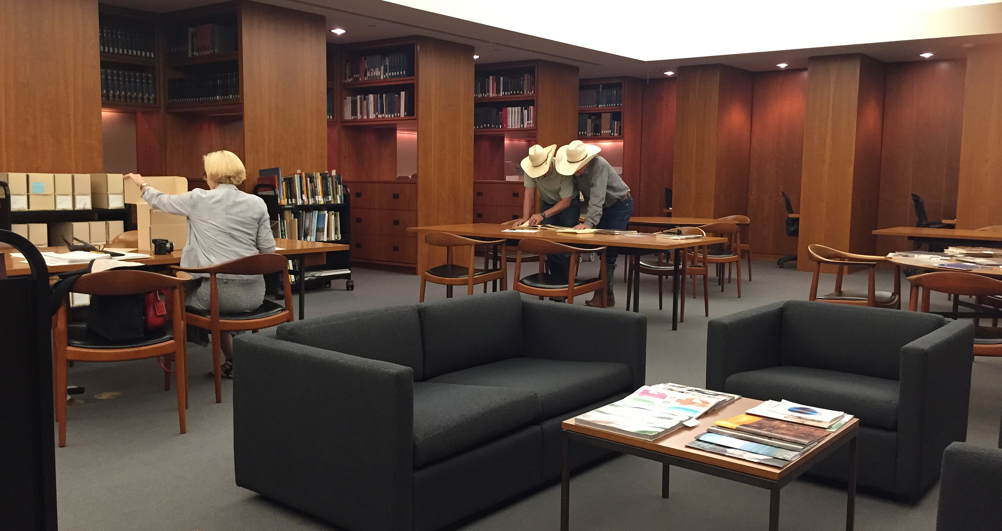 Photograph of the Amon Carter Museum of American Art Reading Room taken July 16, 2015